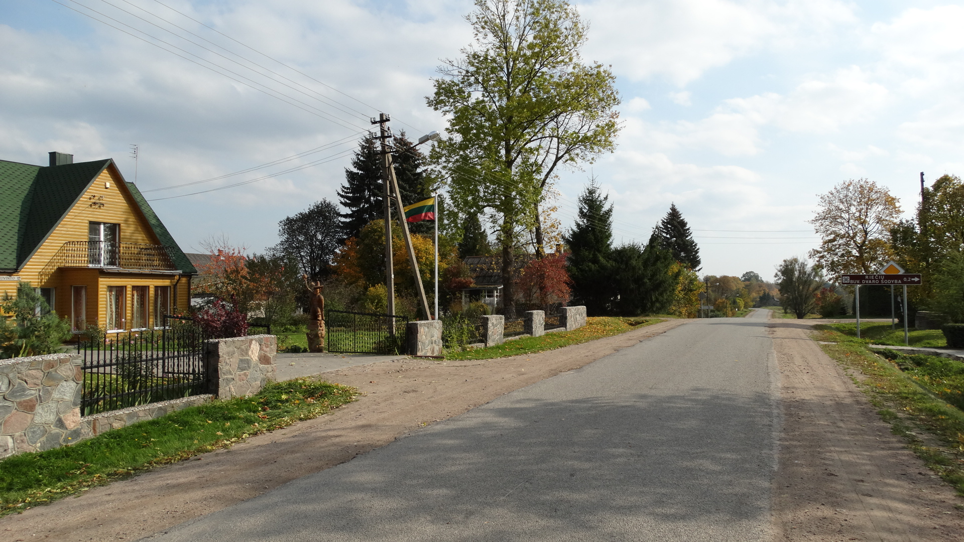 Riečiai, Marijampolė district, Lithuania